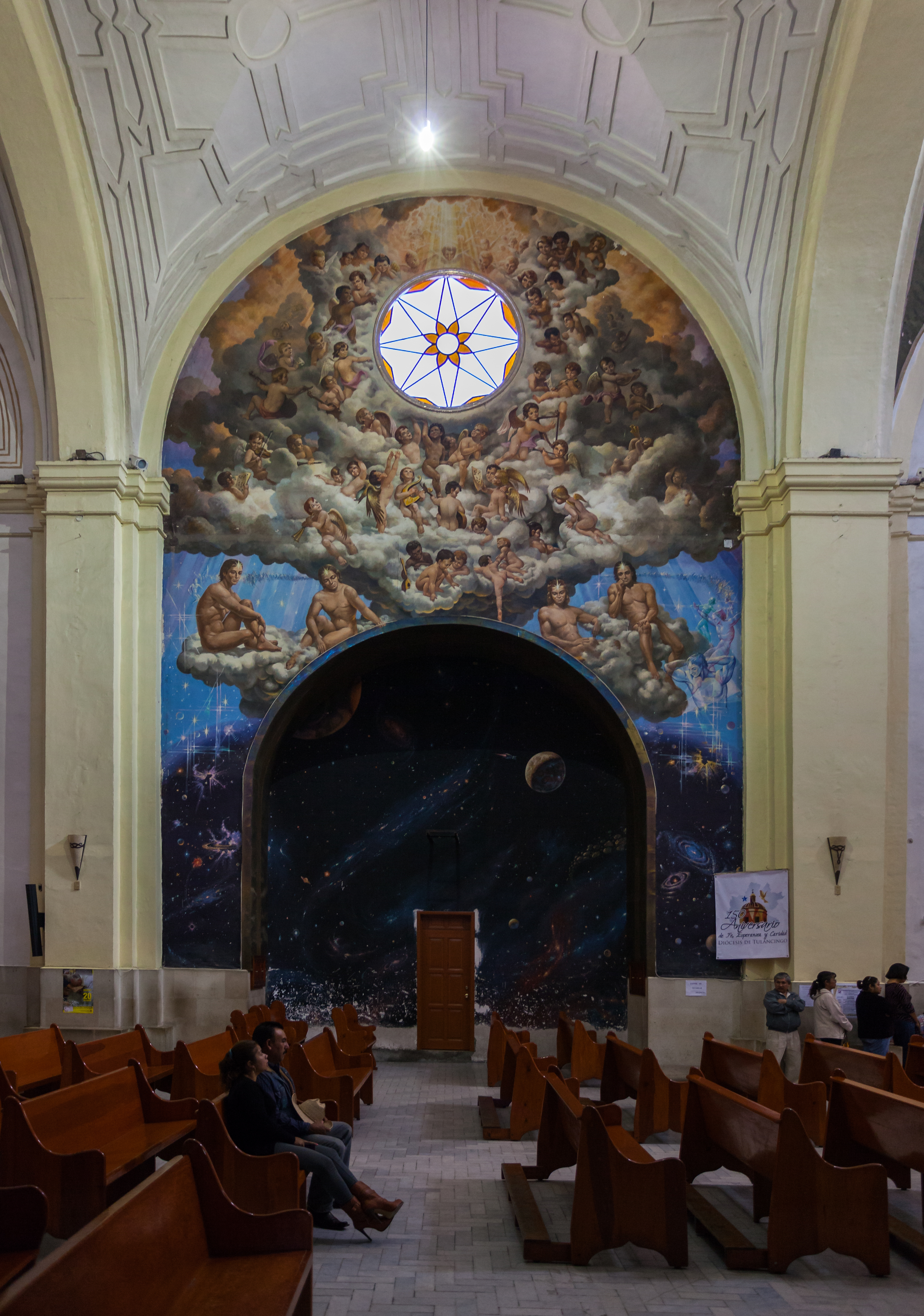 Parish of the Assumption, Pachuca, Hidalgo, Mexico